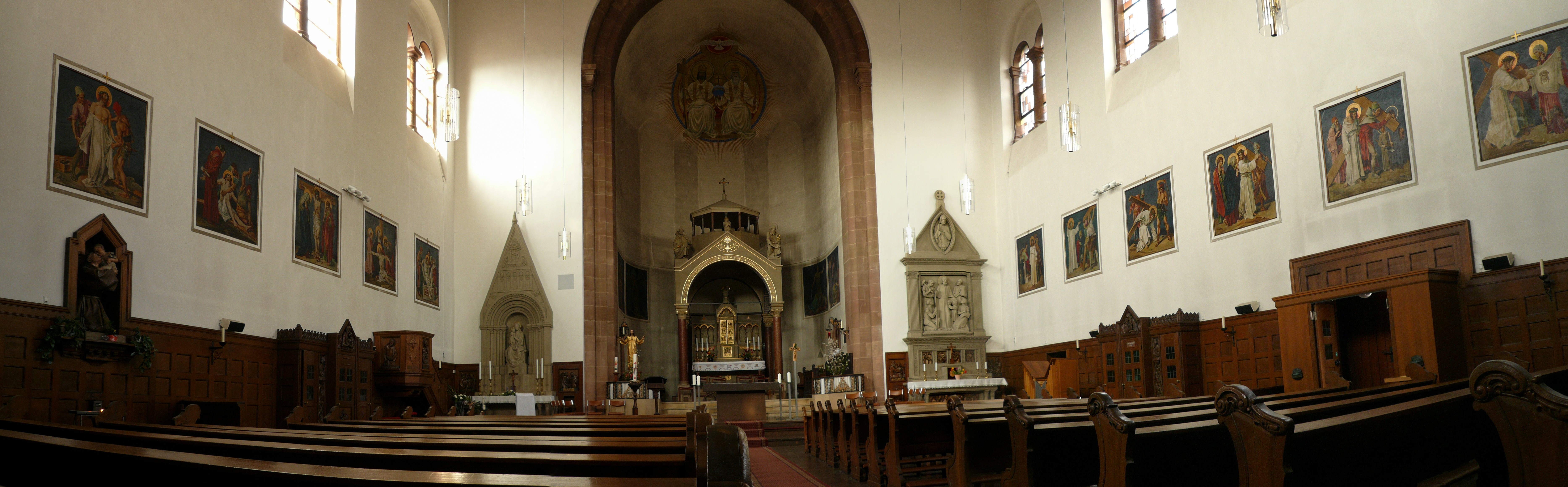 Church StMichael at Homburg, interior